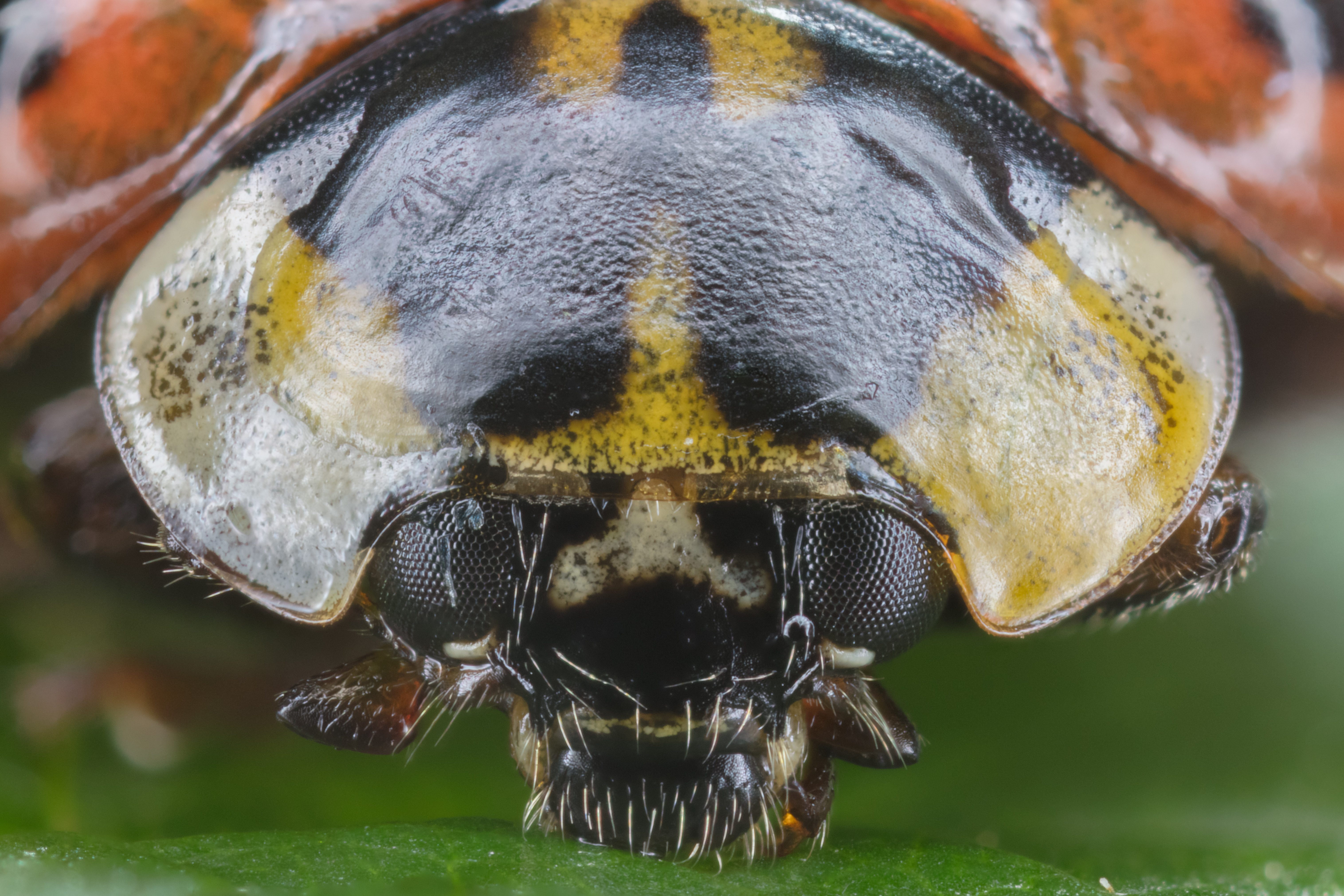 Asian ladybeetle (Harmonia axyridis), Hartelholz, Munich, Germany